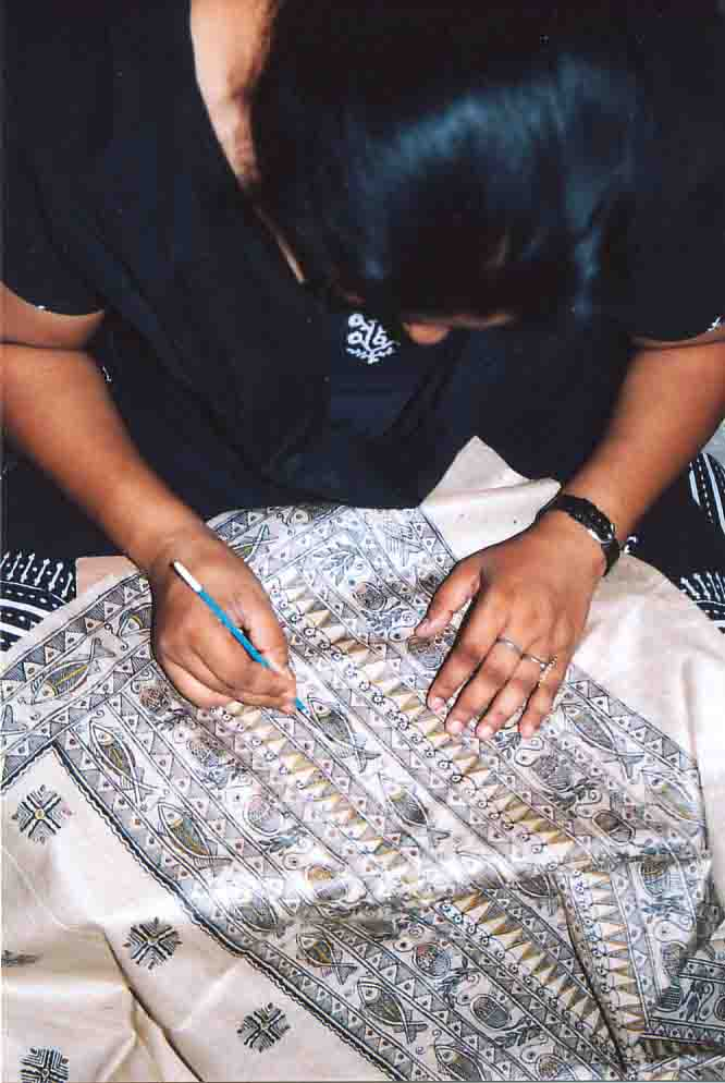 Shashikala , Co author and Wife of K K Kashyap Making Dupatta